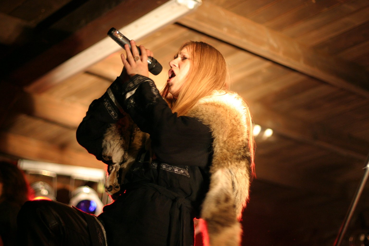 Maria („Mascha“) ‚Scream‘ Archipowa, vocalist of the russian Pagan-Metal-Band Arkona, performing live at the Black Troll Festival (Germany) in 2010.